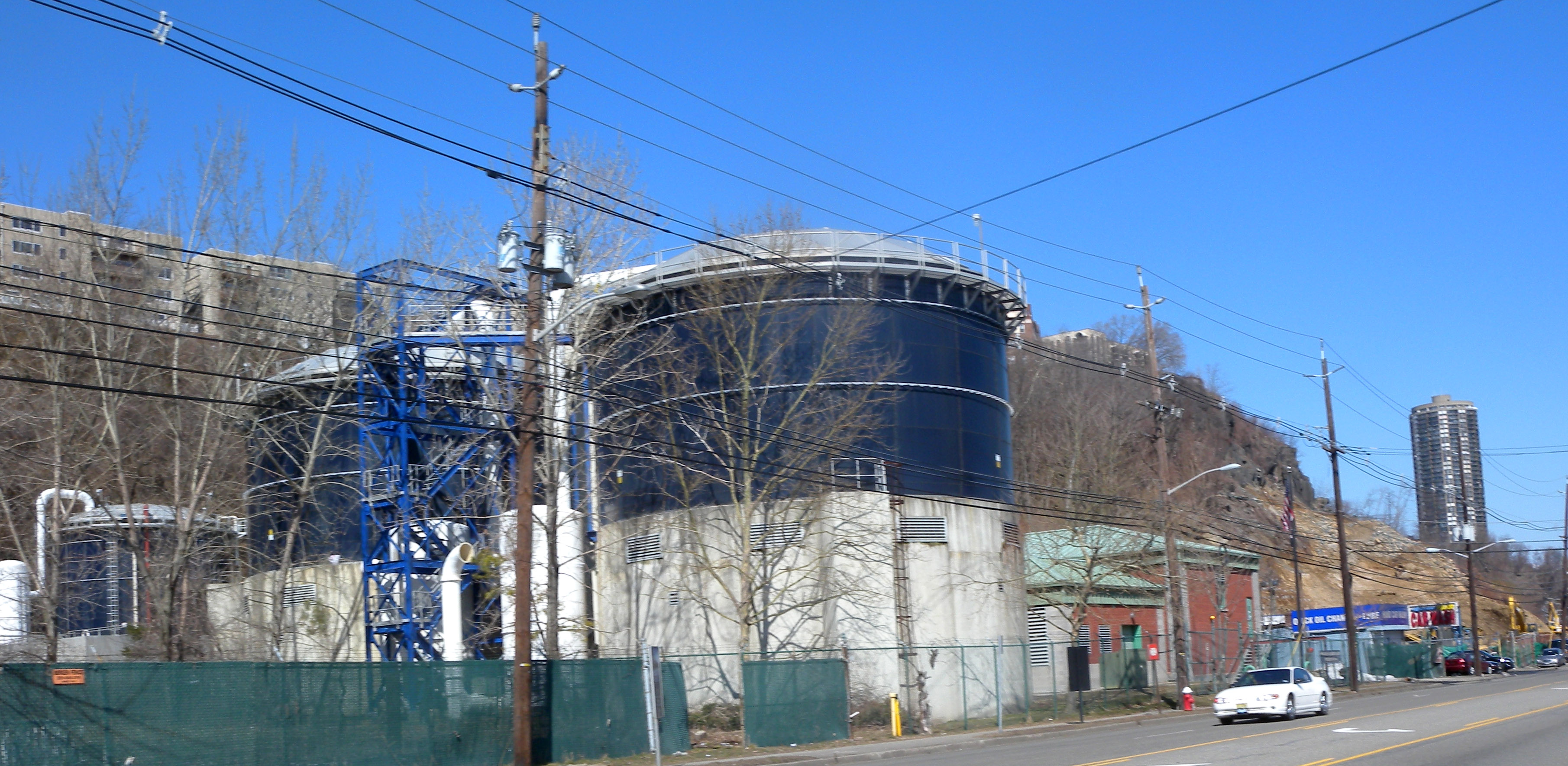 Looking northwest across River Road at Woodcliff Treatment Plant on a sunny midday.